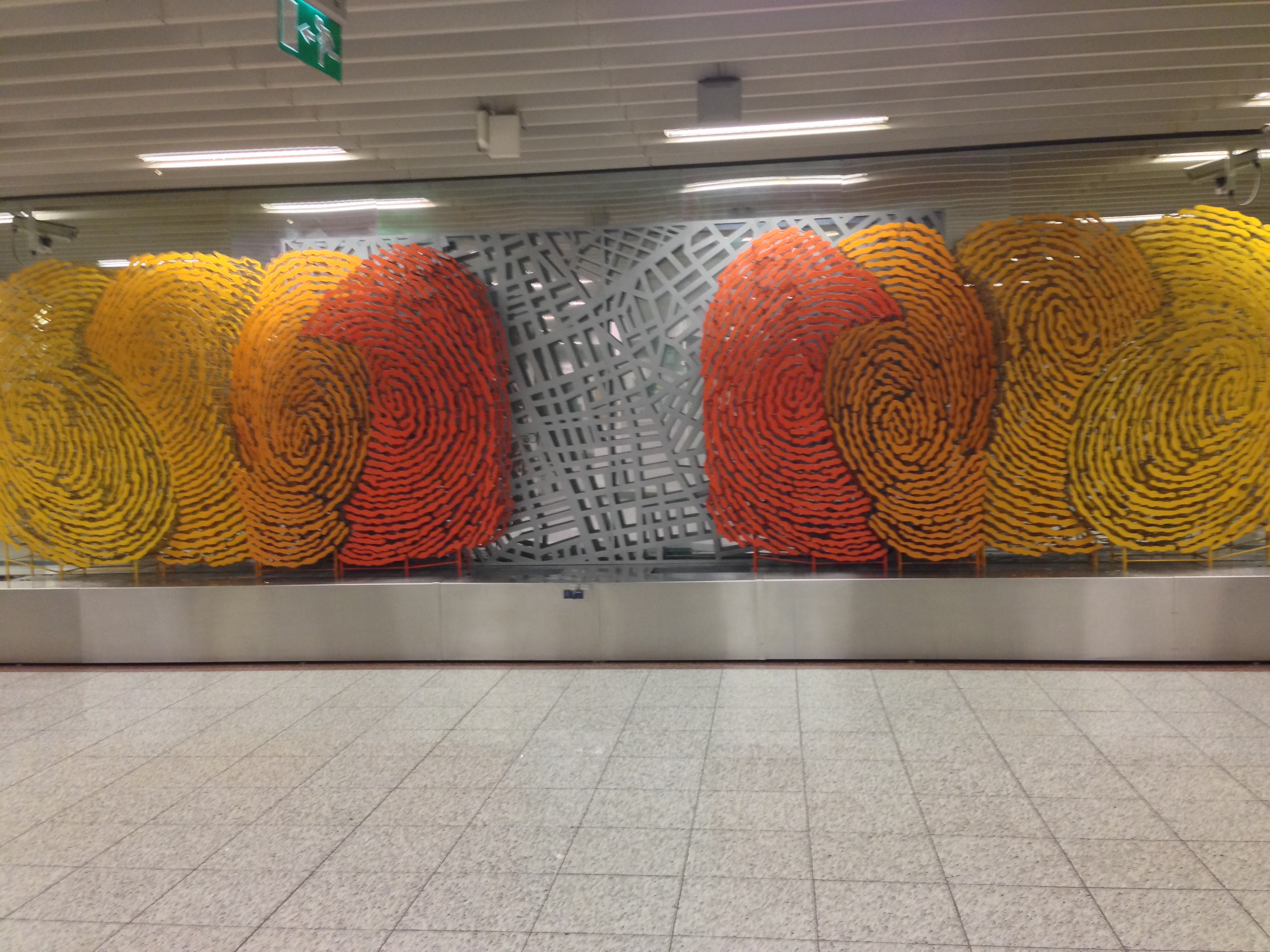 Agios Ioannis metro station, Athens Metro, line 2